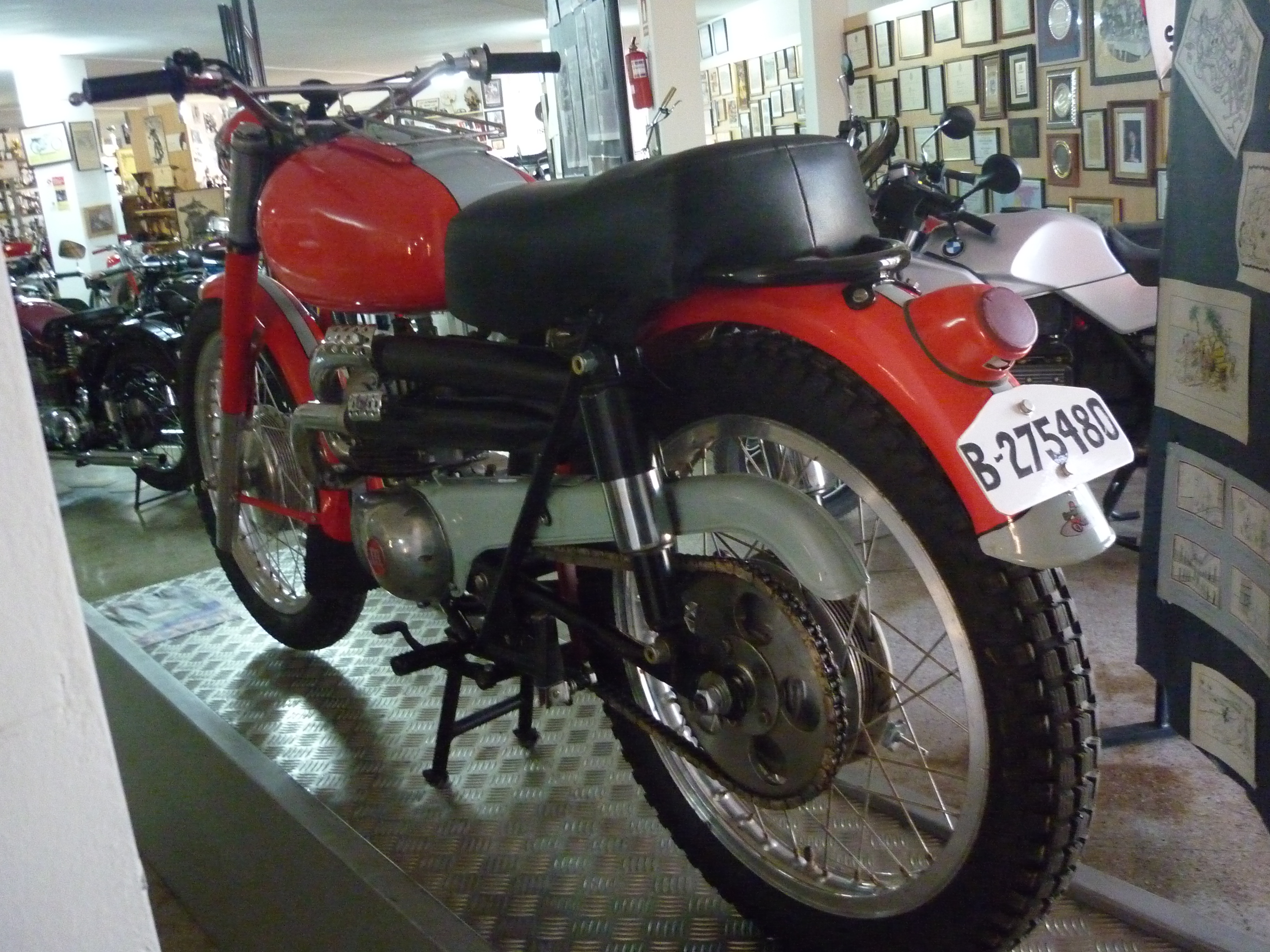 Montesa Brio "Cabra" 125cc circa 1957. Reproduction of the original made ​​by Jordi Fornas in 2013.